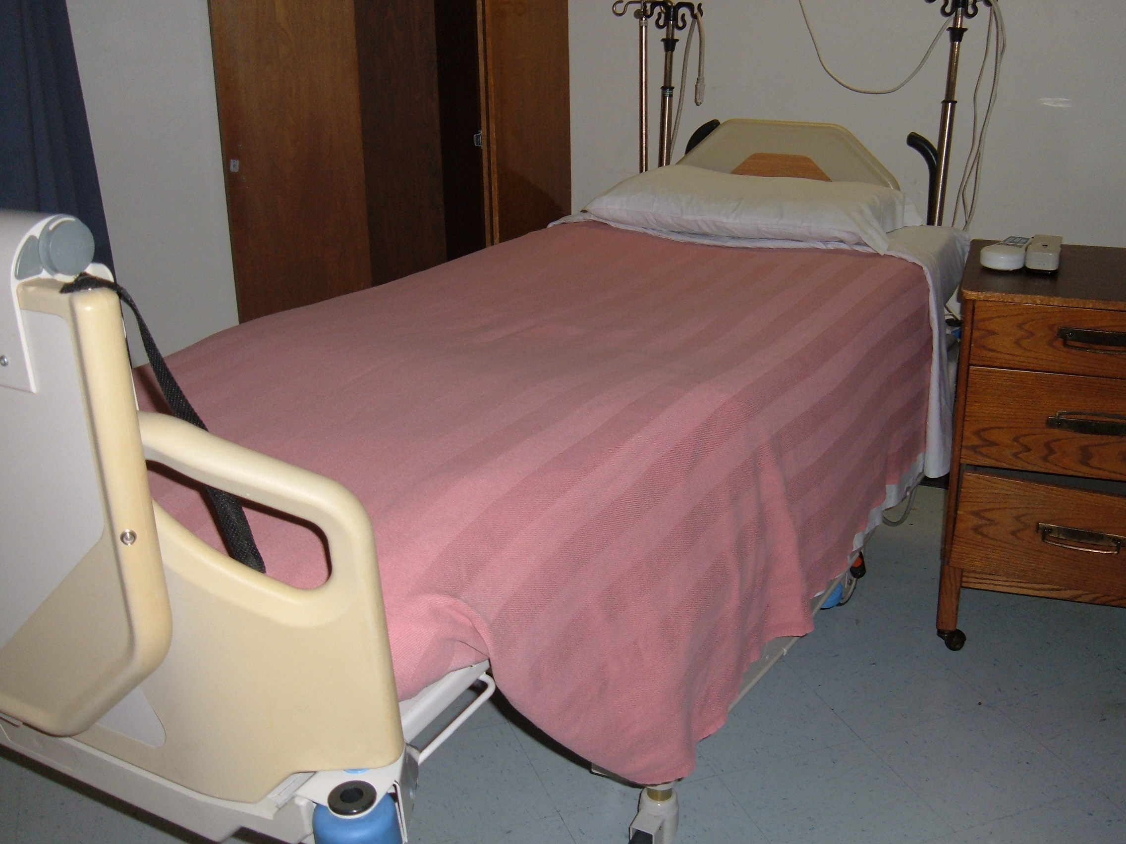 A Hill-Rom hospital bed